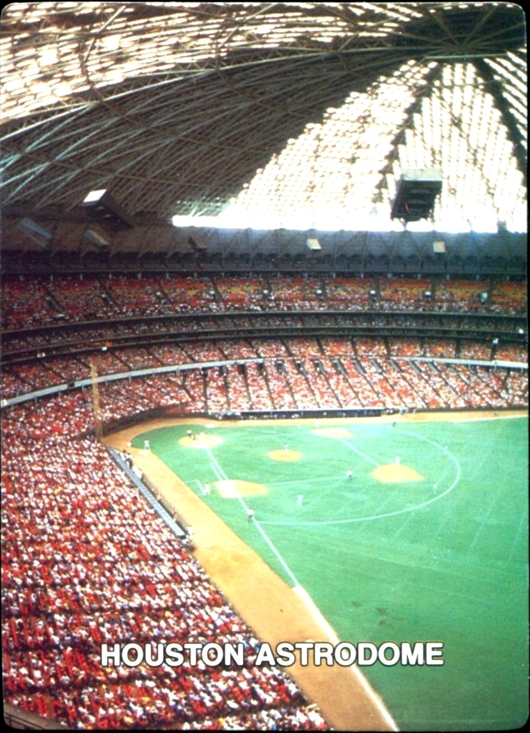 The checklist card of the 1987 Mother's Cookies Houston Astros trading cards set. A photograph inside the Astrodome during a baseball game appears on the front of the card and a checklist of all 28 of the trading cards in the set appears on the back. The card is numbered #28 in the set.